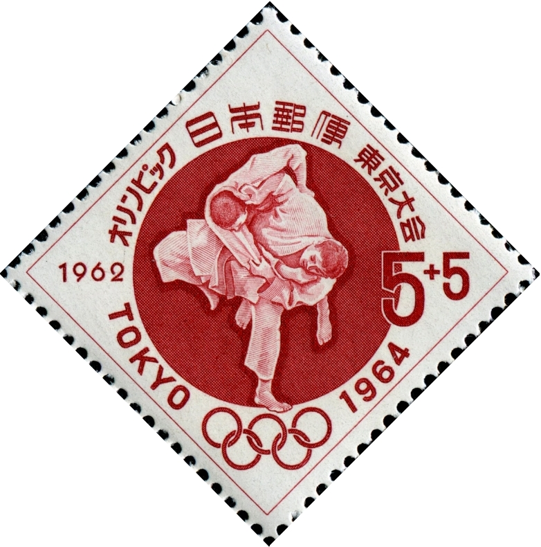 Judo at the 1964 Summer Olympics